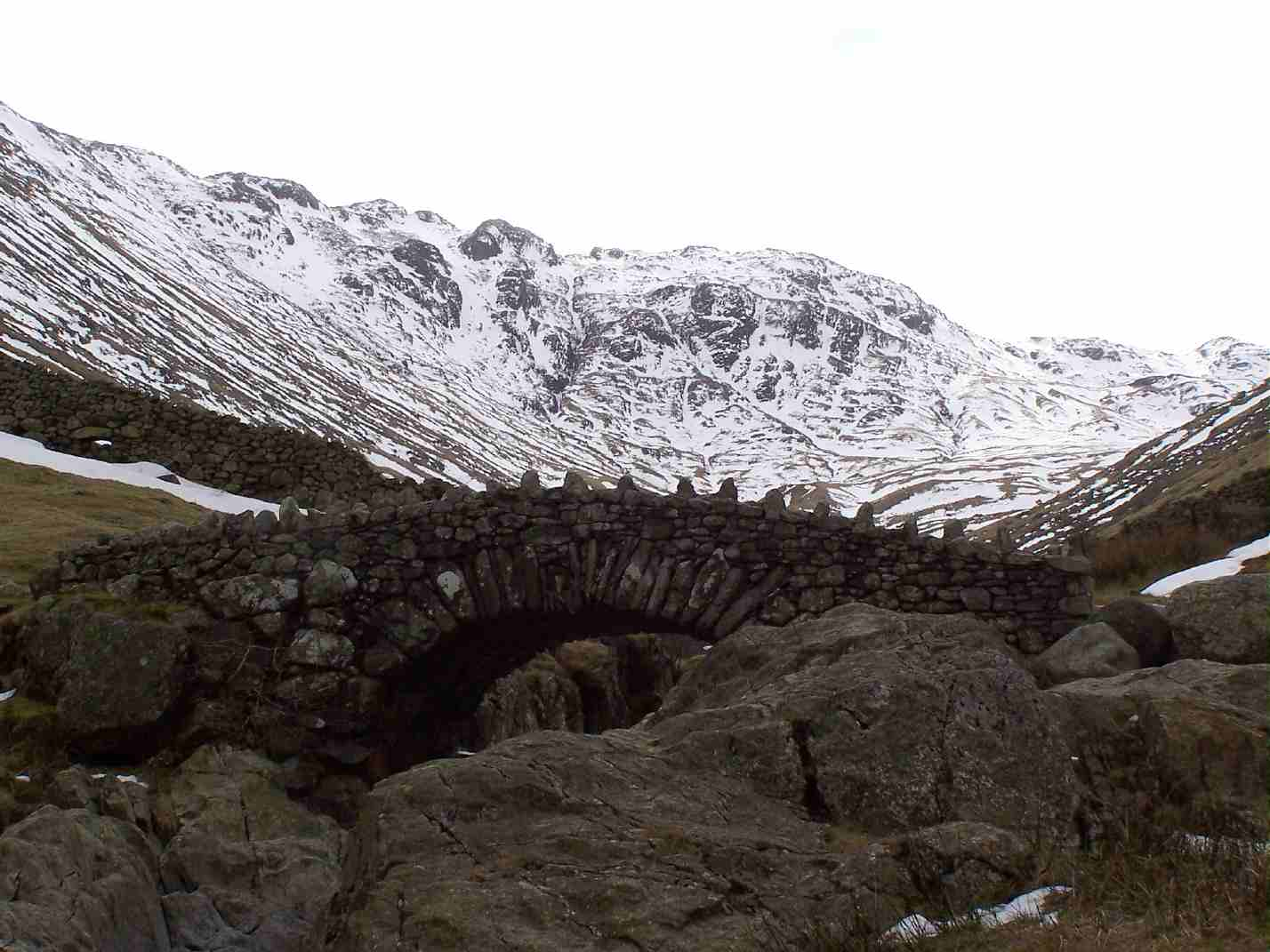 Stockley Bridge over Grains Gill in Borrowdale, Cumbria, with Allen Crags in the background